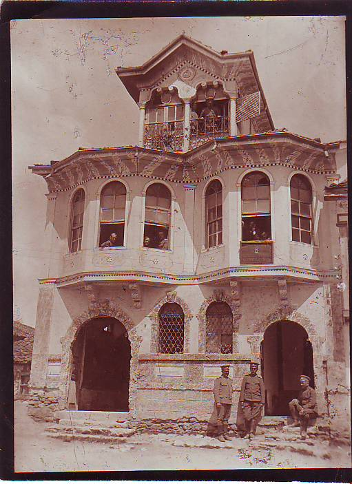 Bey's House in Gostivar with Bulgarian soldiers in front.